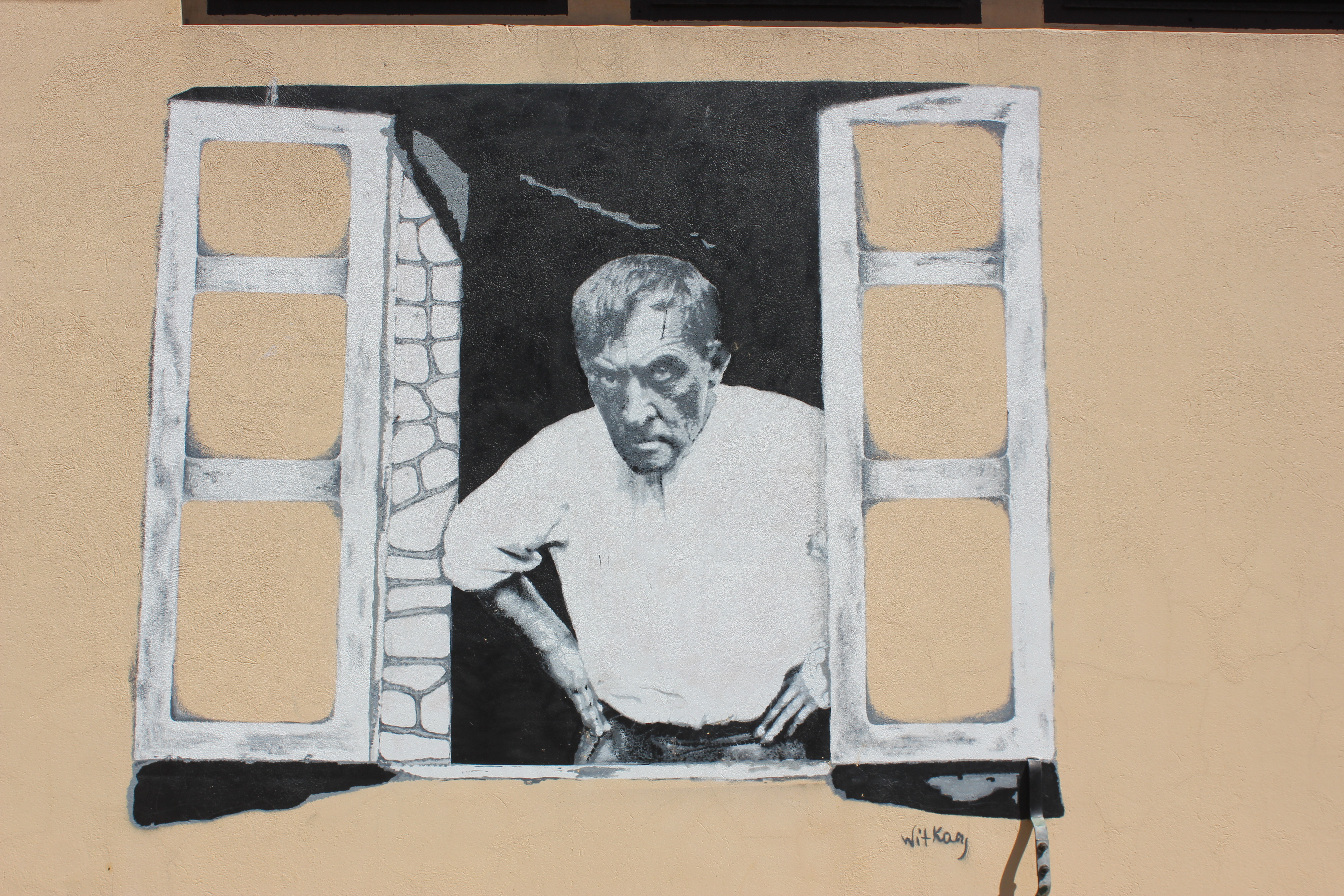 Jarocin - "Witkacy" mural on a power substation